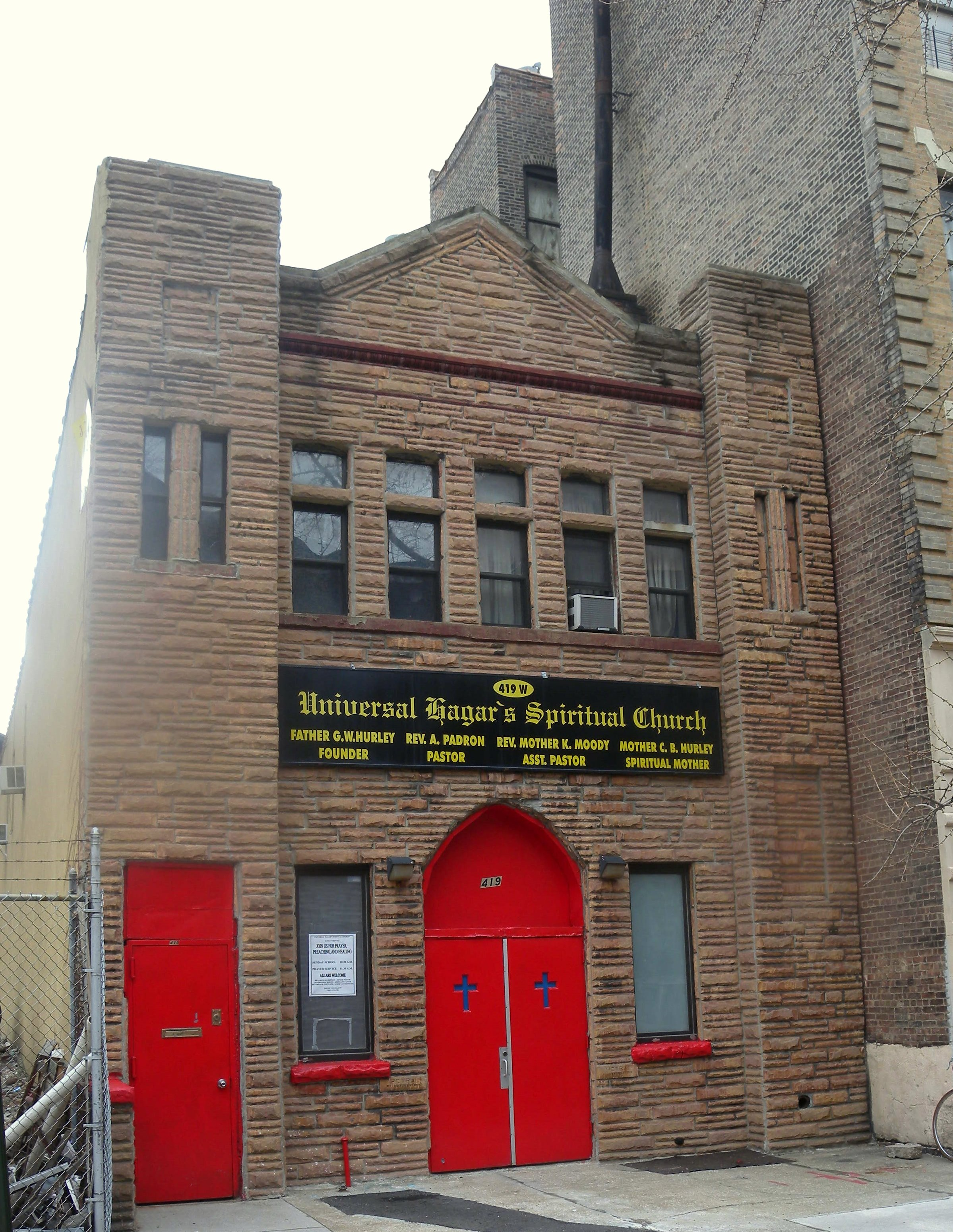 Looking northeast from 150th St at Universal Hagar Spiritual Church on a cloudy midday. EXIF locations is a few blocks south due to photographer's error.